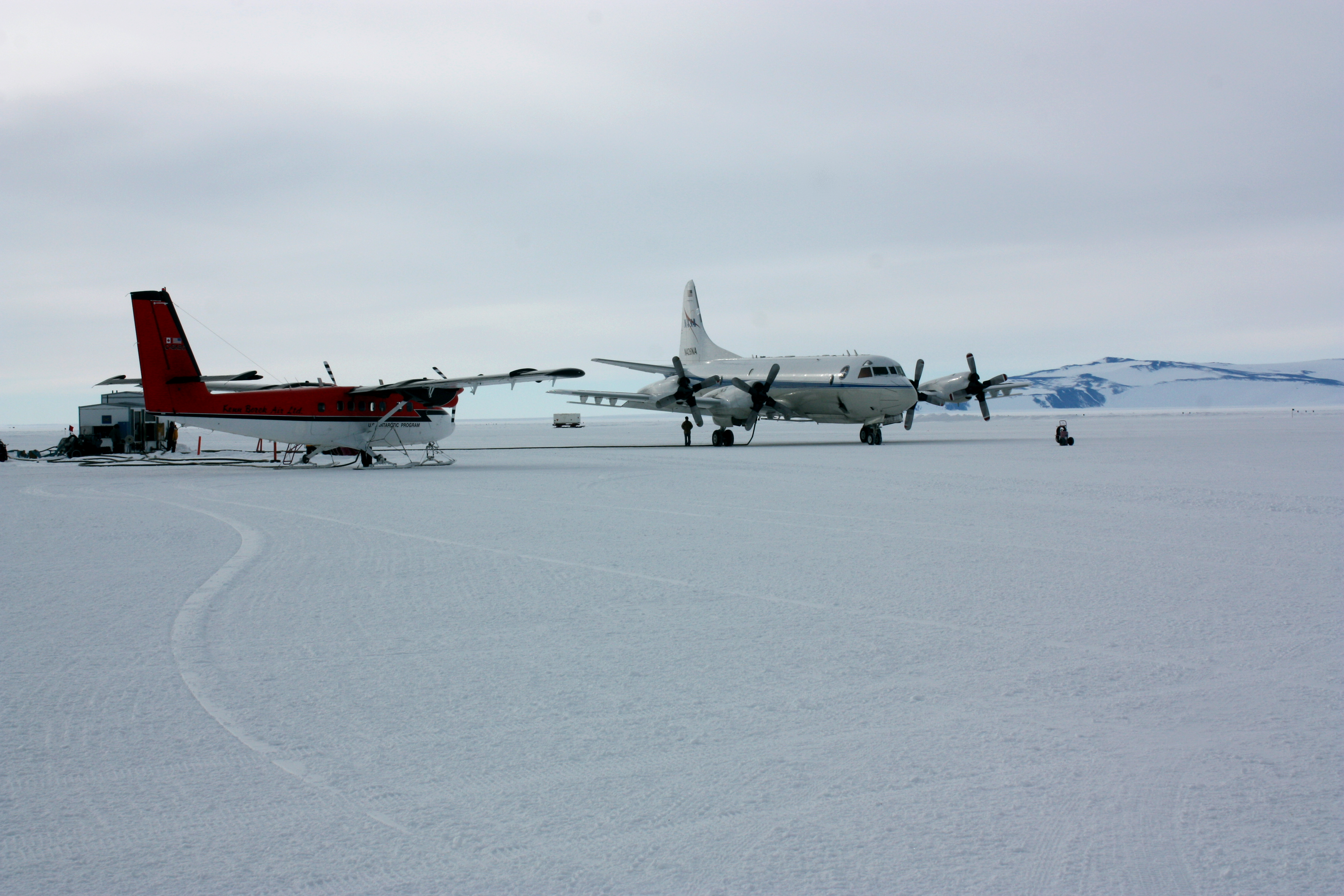 The NASA P-3 and a Kenn Borek Air Twin Otter in the fueling area at McMurdo Station's sea ice airfield. Credit: NASA / George Hale